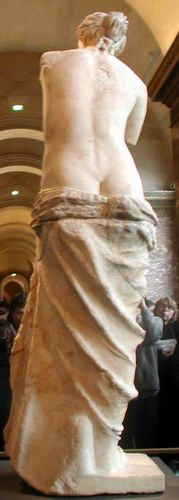 Venus de Milo. Louvre Museum.